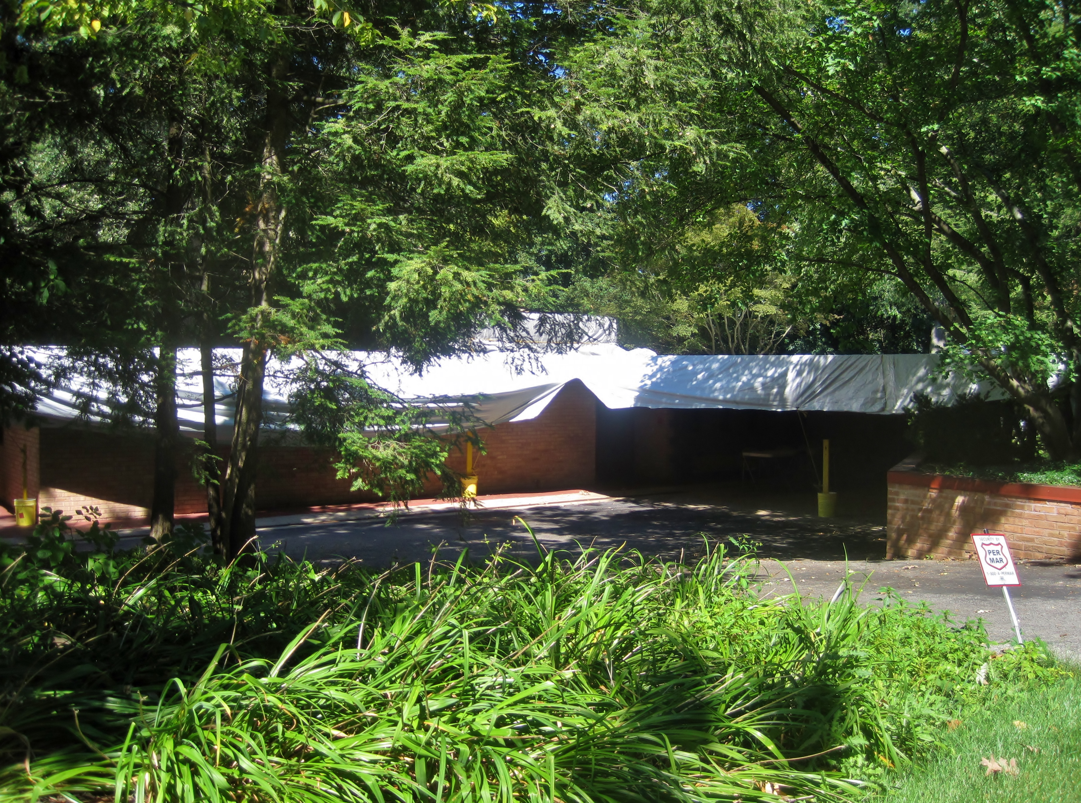 Kenneth and Phyllis Laurent House Unfortunately, the building suffered roof damage only days before the picture was taken.